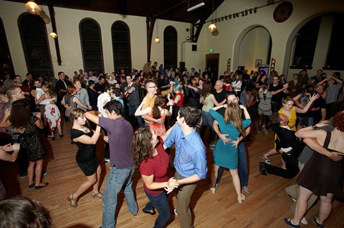 Dancers at Mobtown Ballroom